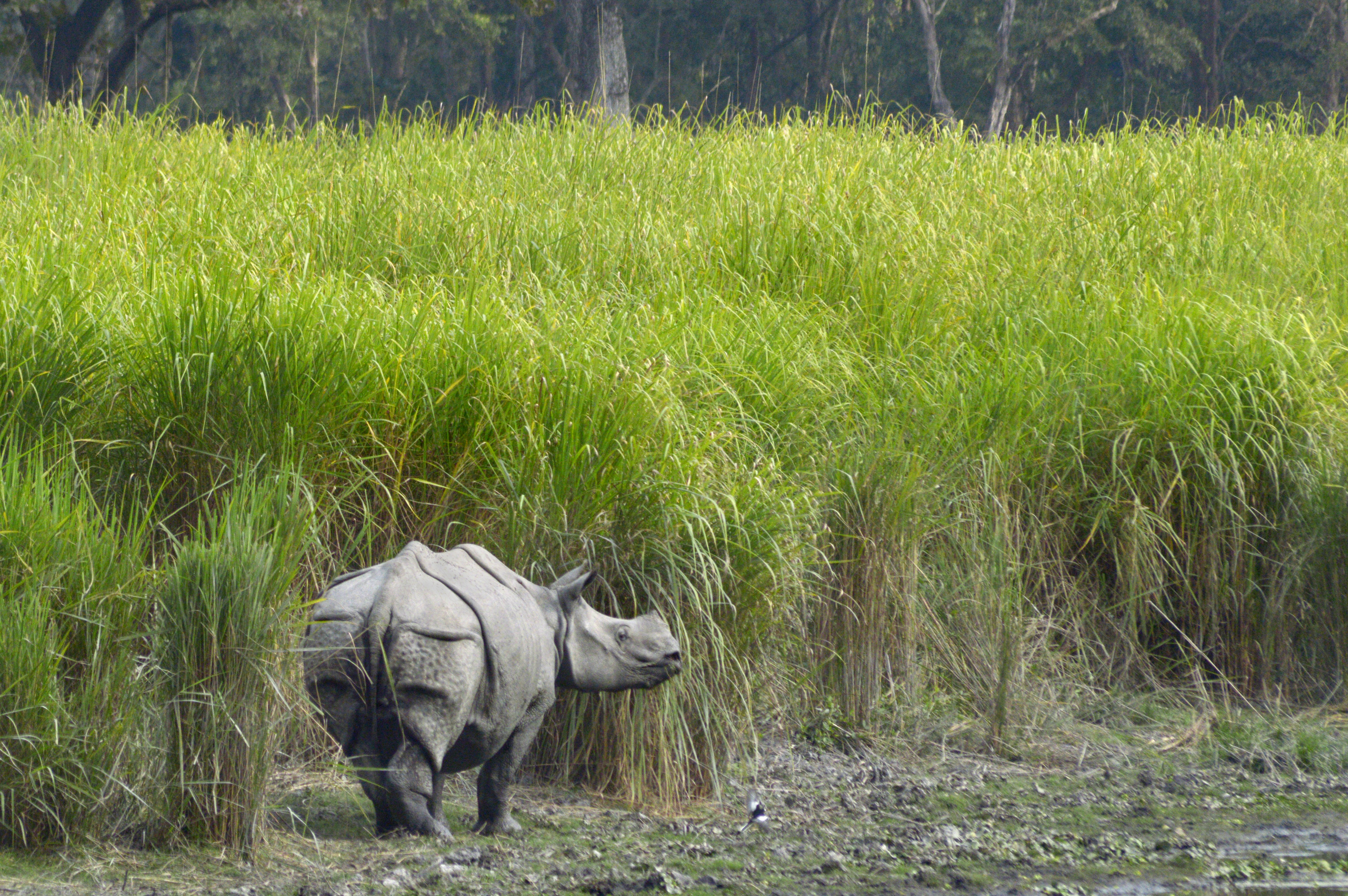 One-Horned Rhinoceros at the Kaziranga National Park, Assam. It was taken on a cloudy day near the wetland of the park. The Rhino (Rhinoceros unicornis) was in front of the thick growth of elephant grass.